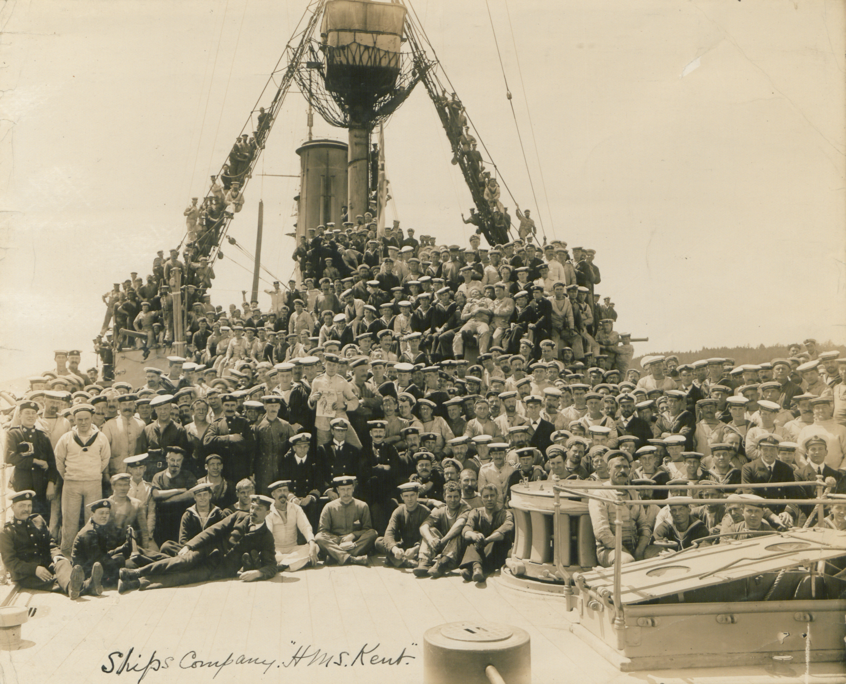 Original caption: “Ships Company, HMS "Kent".”